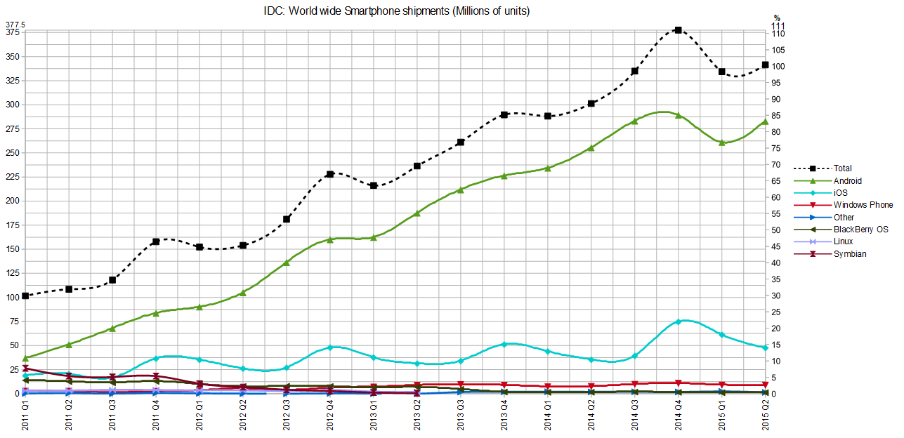 MobileOS market share till 2014 Q2